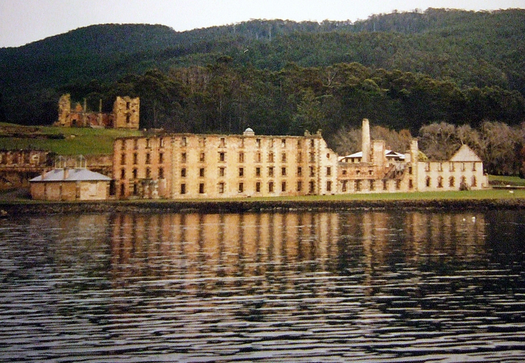 Low quality photo of "main building" (was once a mill?) at Port Arthur. Image is actually a photo of a printed photo (copyright also owned by me). No scanner even :)